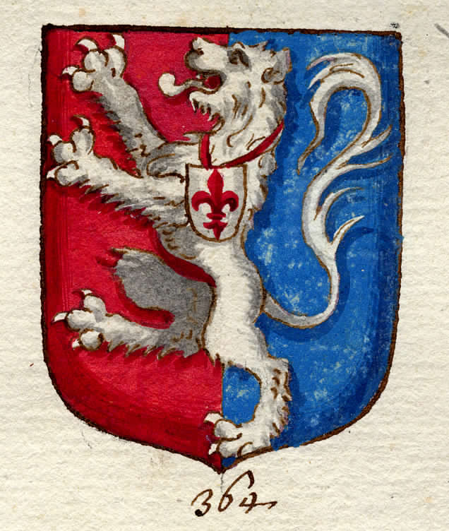 Stemma famiglia Boni leone rampante